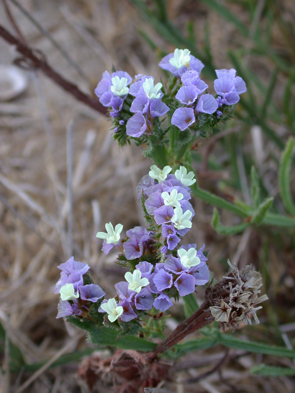 Limonium sinuatum (L.) Mill. (עדעד כחול), Carmel beach, Israel, July 15, 2006.